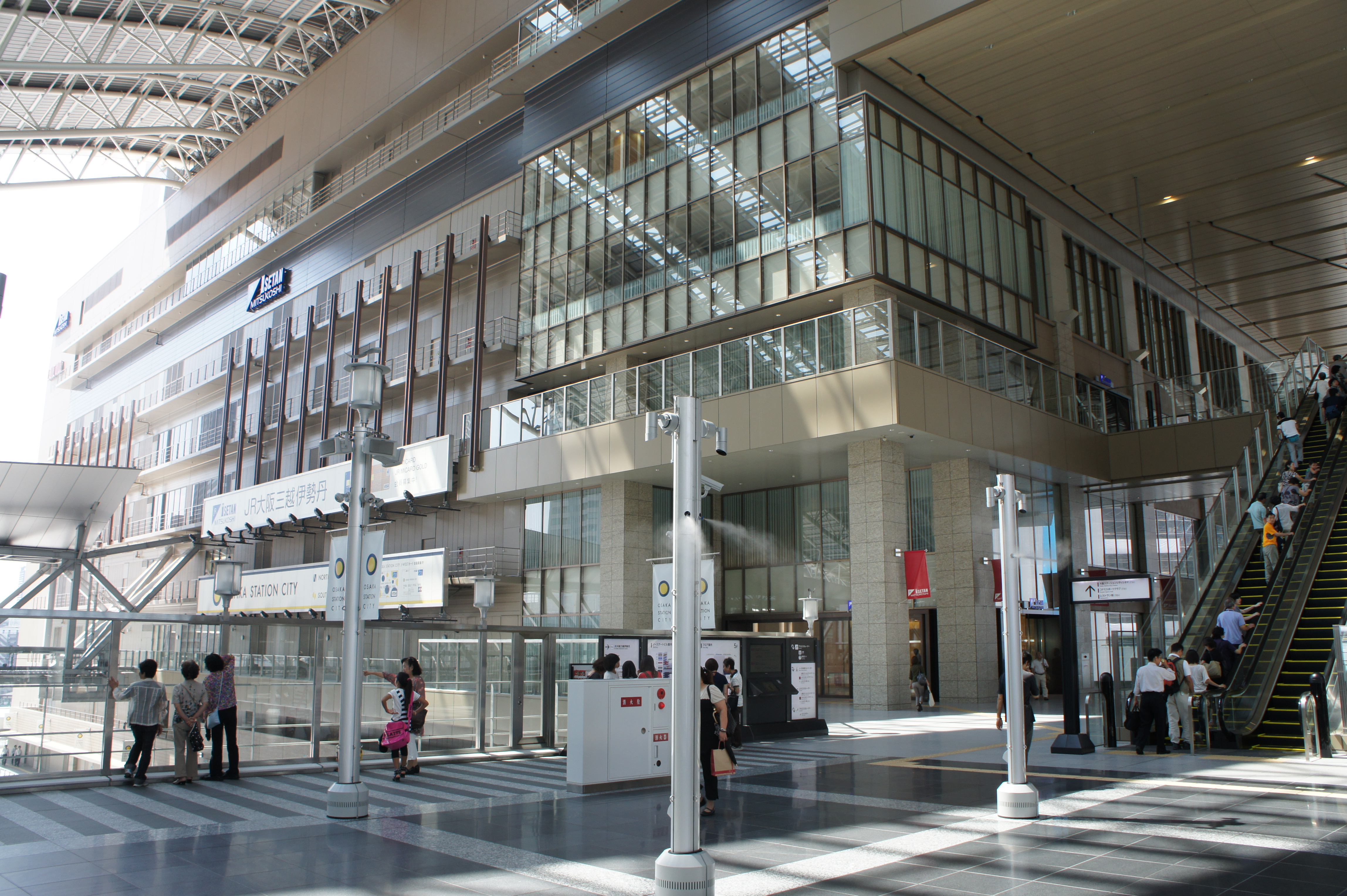 JR Osaka Mitsukoshi Isetan, 3-1-3 Umeda Kita-ku Osaka-City Osaka Japan.